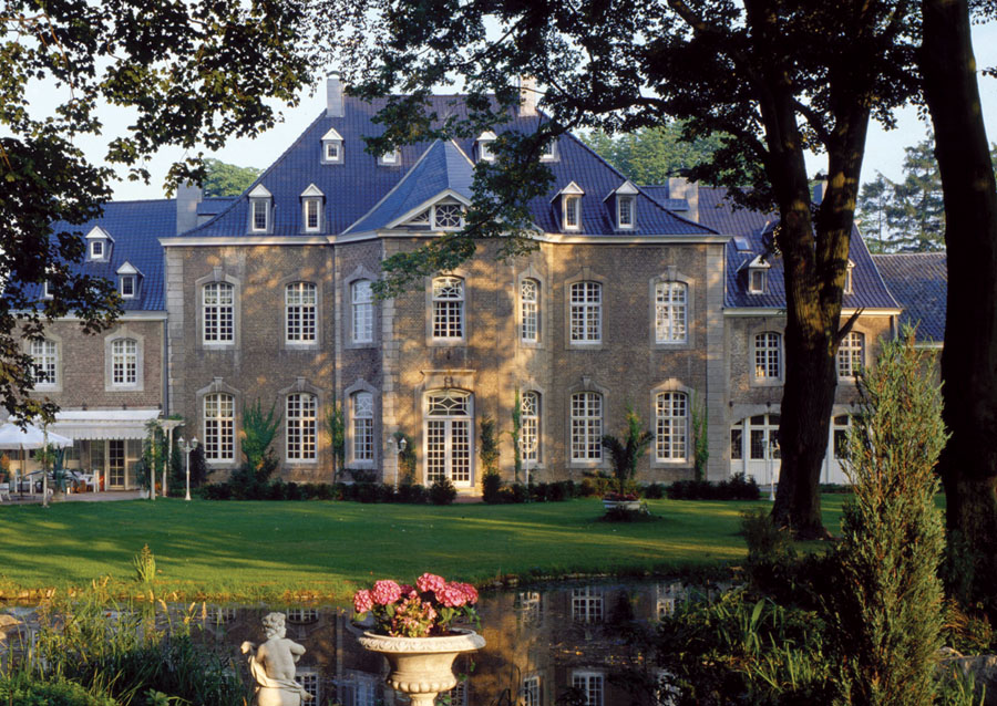 Chateau Thal, Belgium